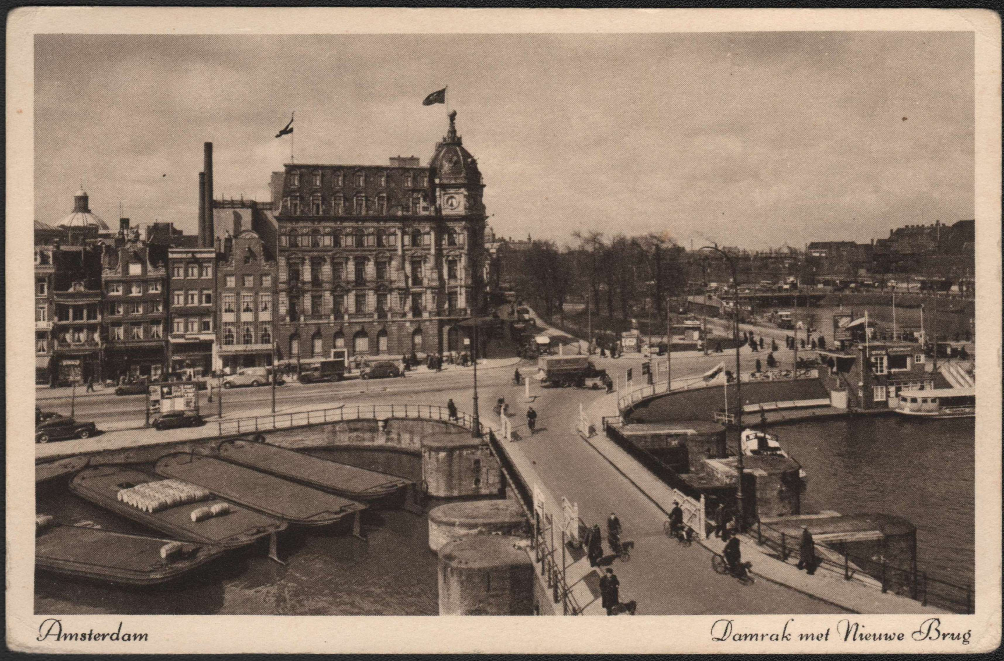 Amsterdam Damrak met Nieuwe Brug.